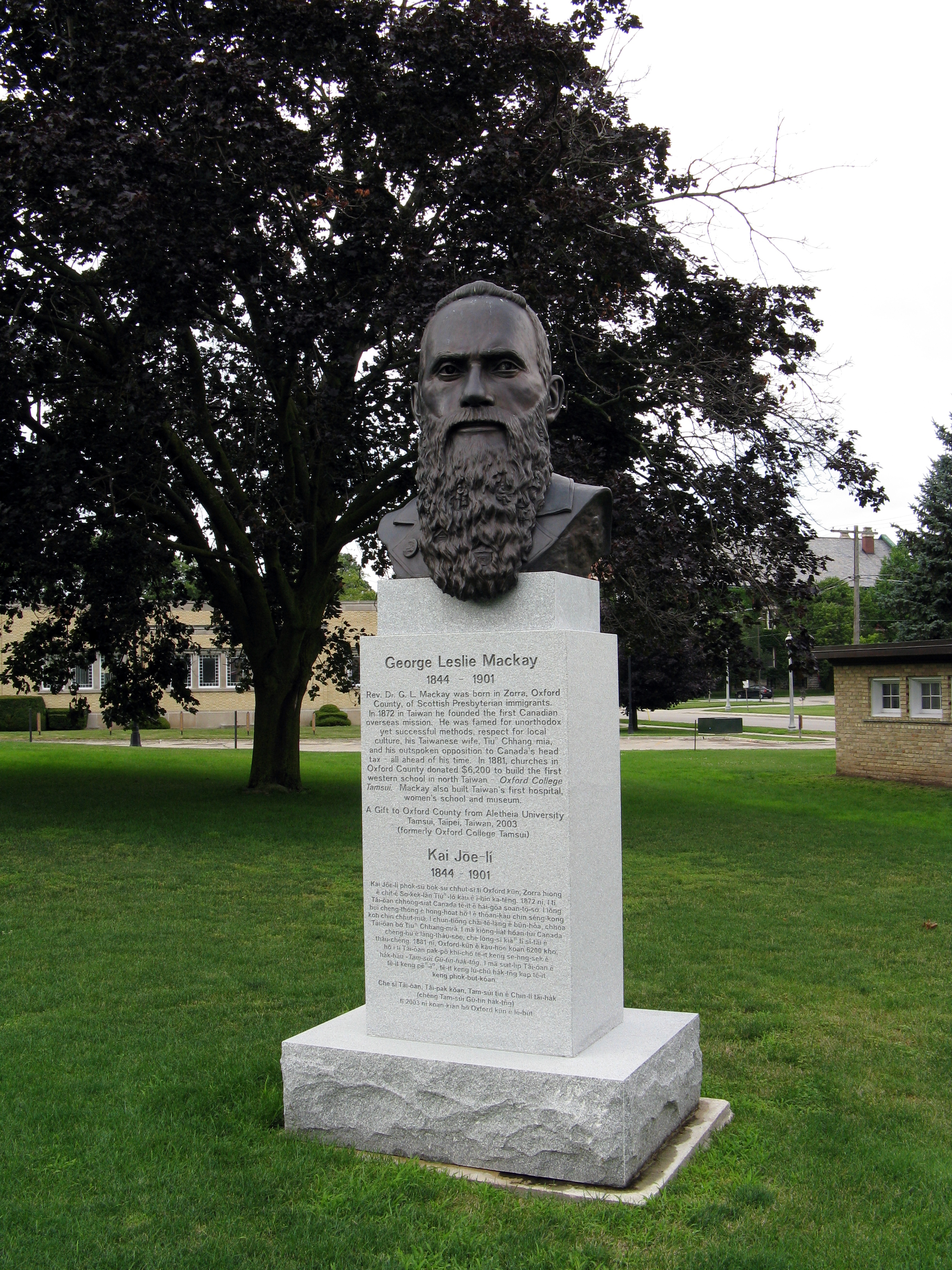 George Leslie Mackay monument in Woodstock, Ontario.